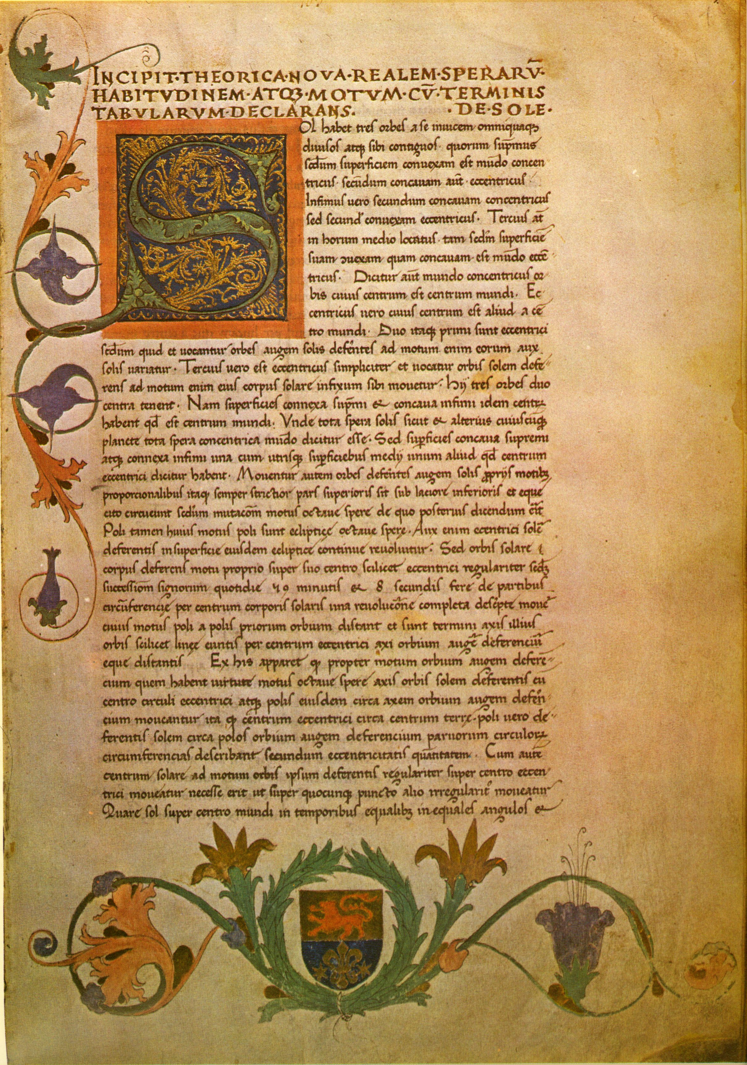 Georg von Peuerbach, Theoricae novae planetarum (beginning), in ms. Kraków, Biblioteca Jagiellońska, Ms. 599, fol. 1r.